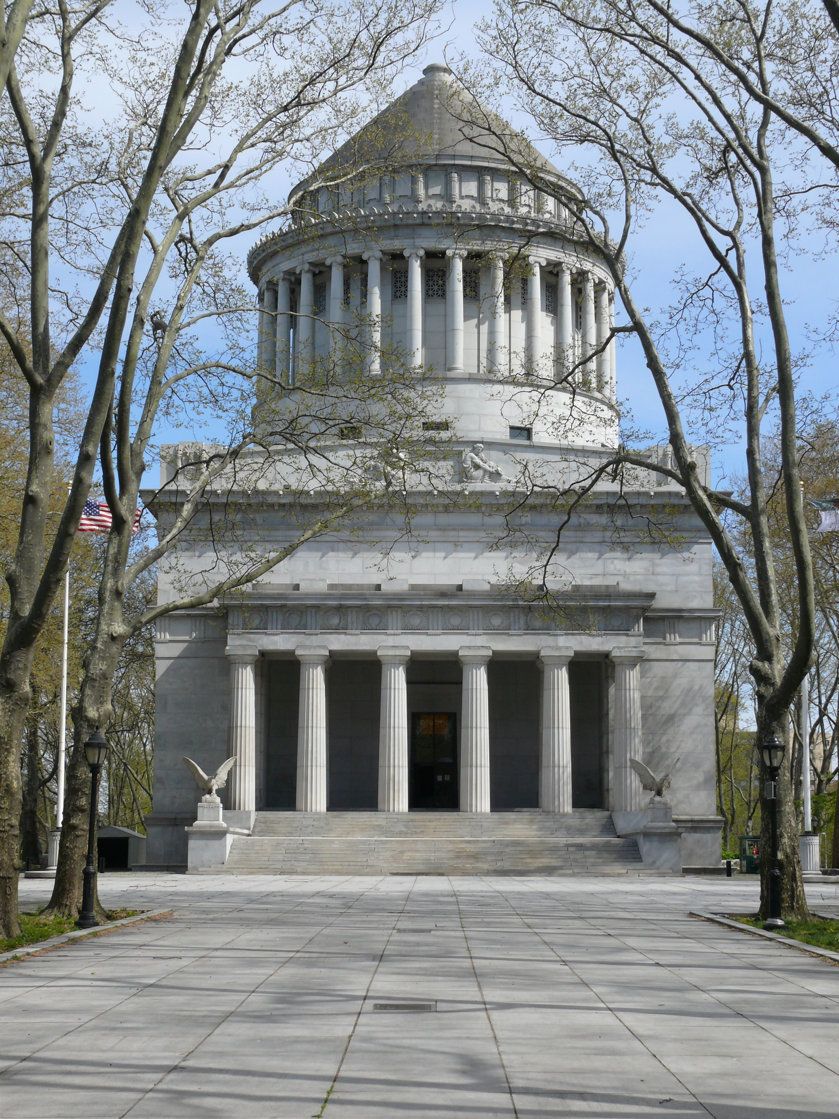 Grant's Tomb a mausoleum containing the bodies of Ulysses S. Grant (1822–1885), American Civil War General and 18th President of the United States, and his wife, Julia Dent Grant (1826–1902).